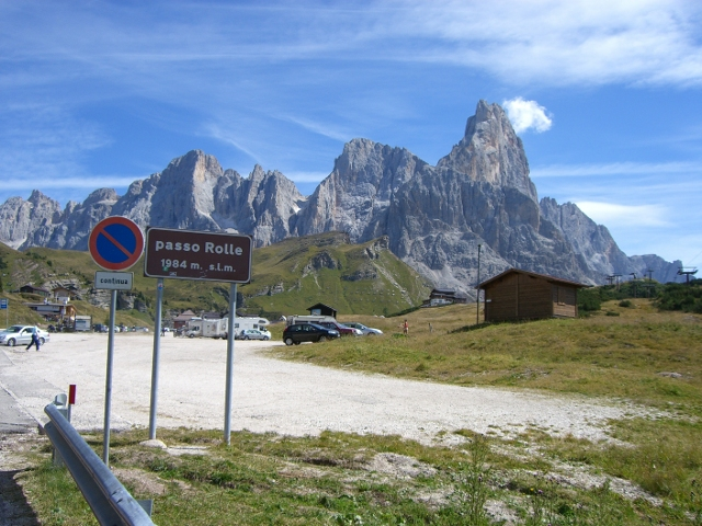 Passo Rolle: Summit with sign